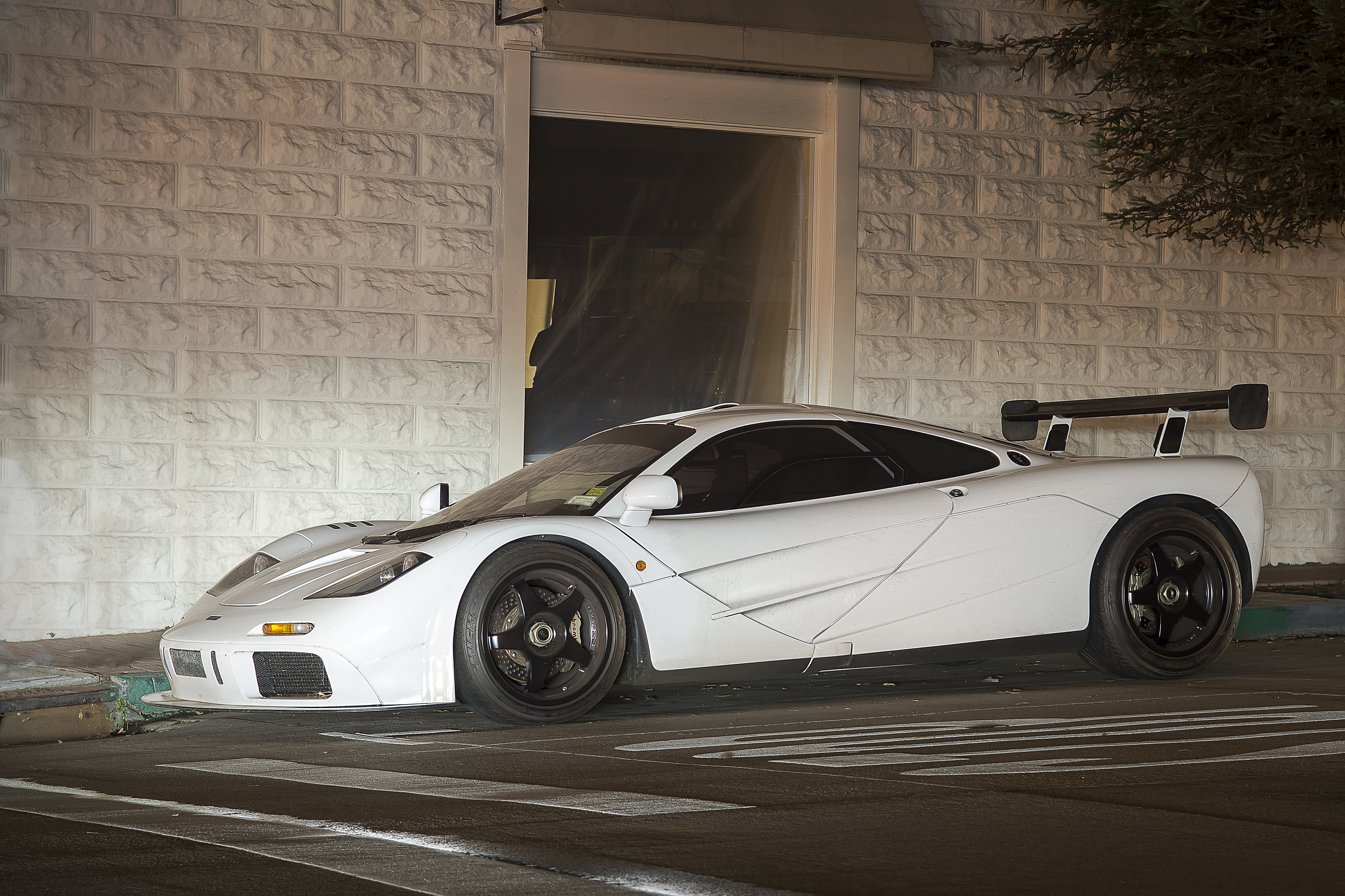 McLaren F1 HDK spotted in Downtown Carmel Valley during Monterey Car Week 2014. Not my favorite shot but it's the only F1 I've seen so I had to upload it. (cc) Creative Commons Personal and Commercial with Attribution. If you use this photo make sure you source with a link back to my site at